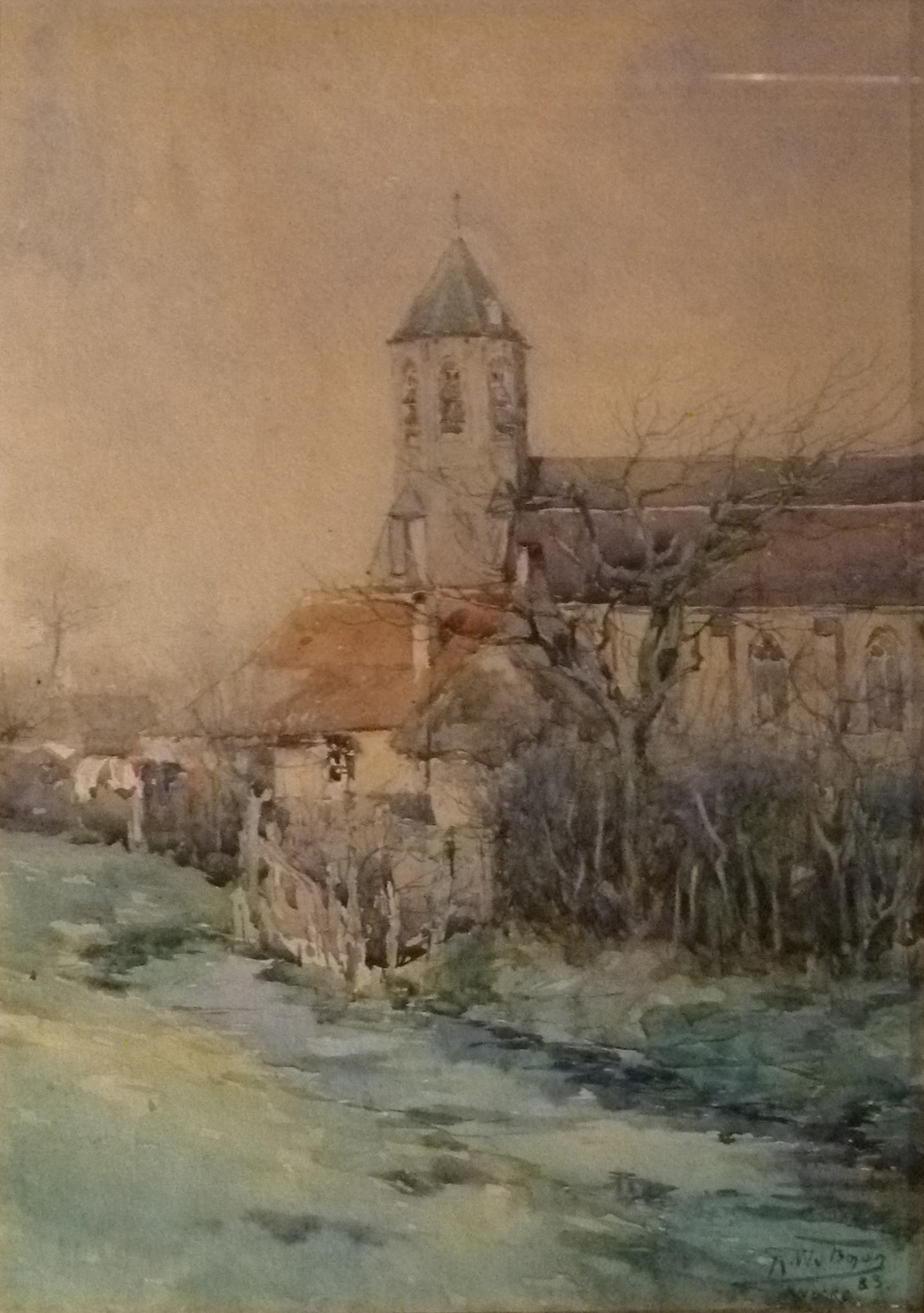 "Church of Knocke" (1883), water colour (34 x 24 cm) by the Belgian painter Rodolphe Wytsman; private collection